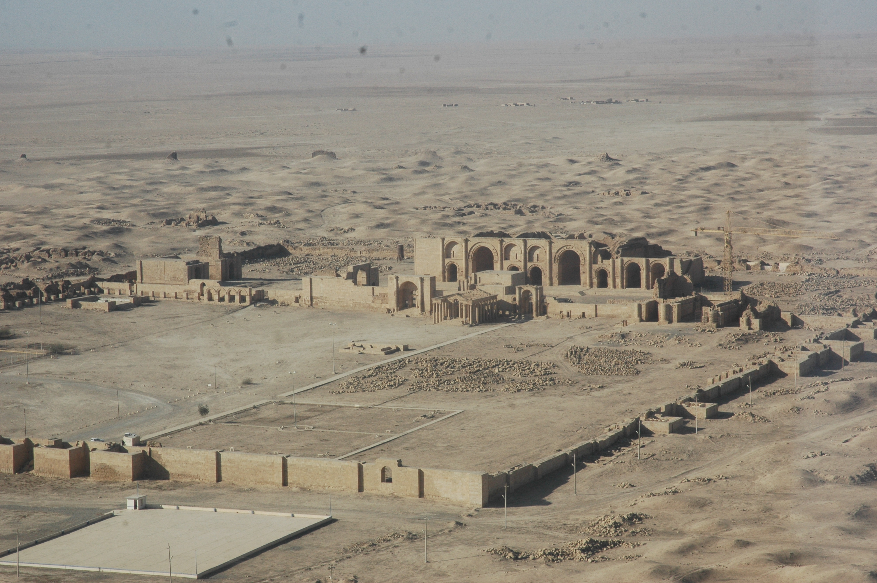 The ruins of the ancient city of Hatra, the City of the Sun god, are located approximately 300 kilometers northwest of Baghdad, Iraq. The city is located between the rivers Tigris and Euphrates known as Al Jazirah.